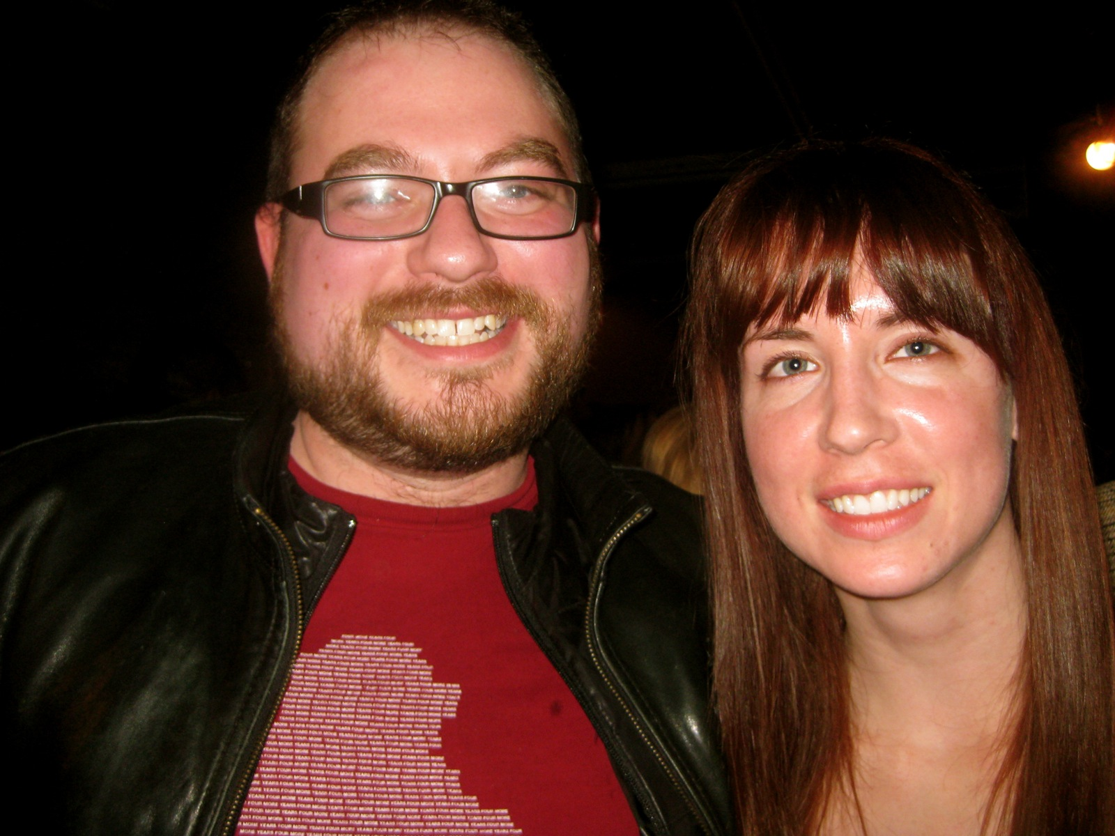 Blogger Matthew Yglesias (left).